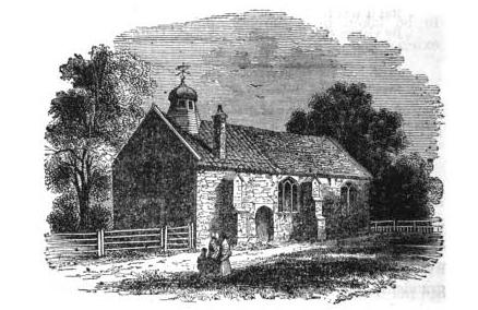 The old chapel at Brothertoft, Lincolnshire, in or before 1843